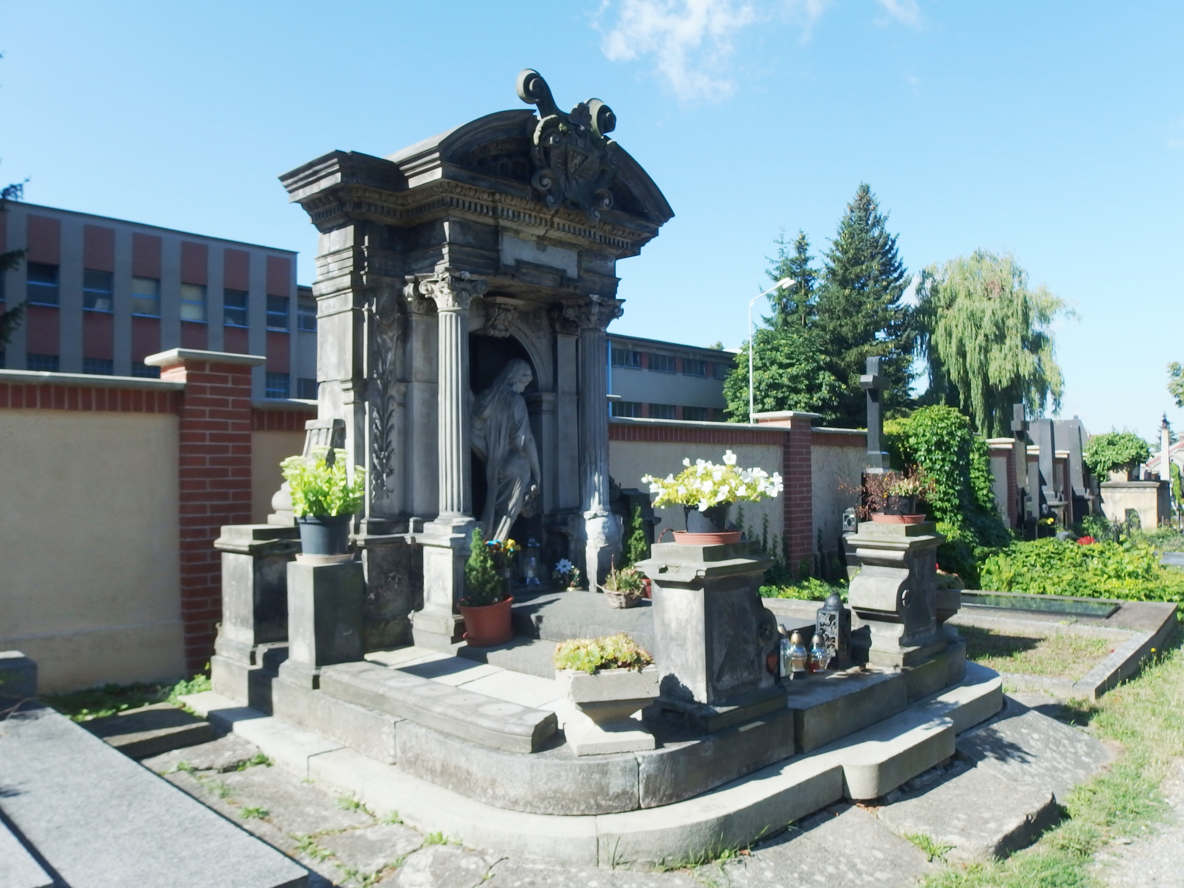 Přerov, Czech Republic.